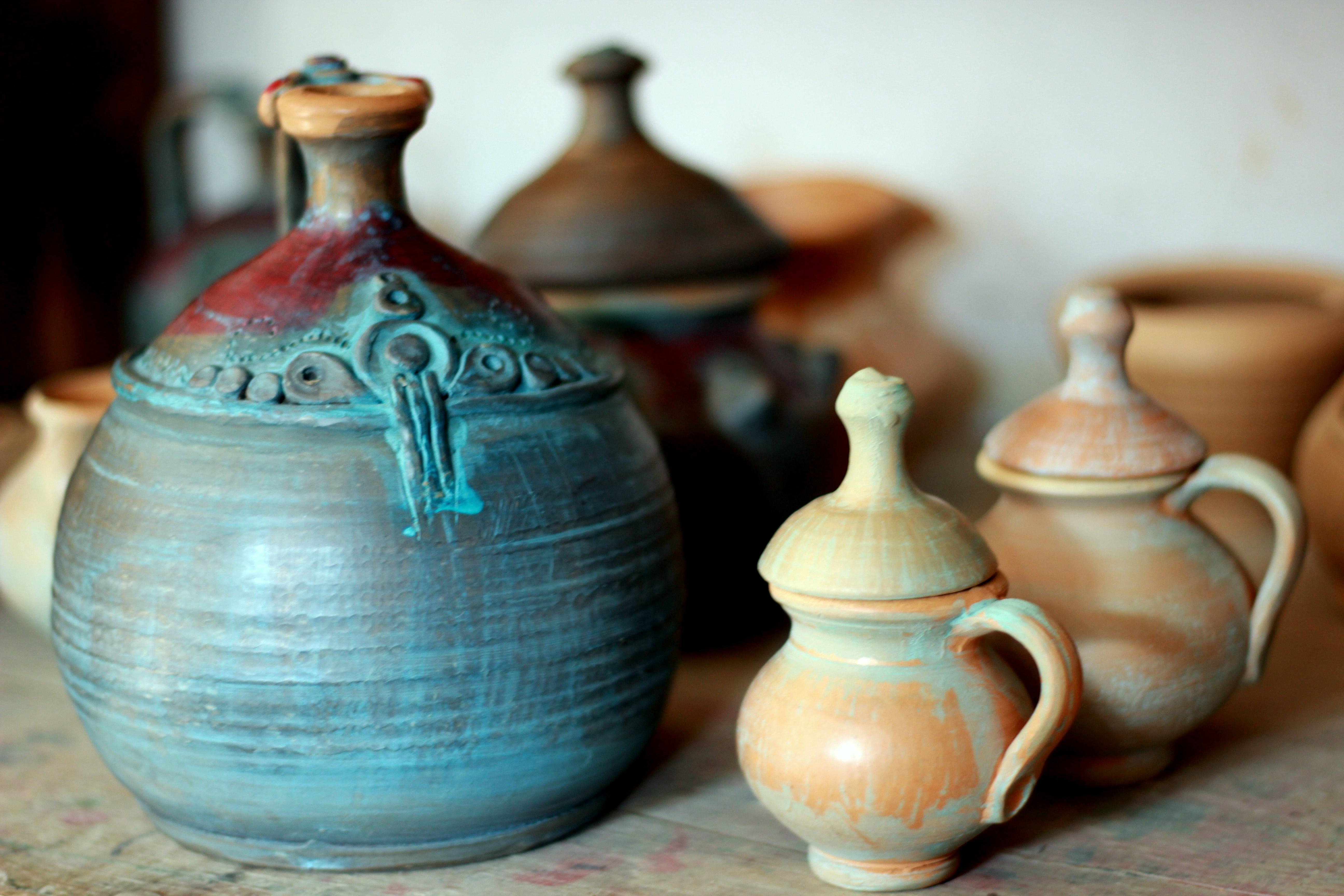 Ceramics made by Daniel Les. Romania Maramureș County, Baia Sprie.